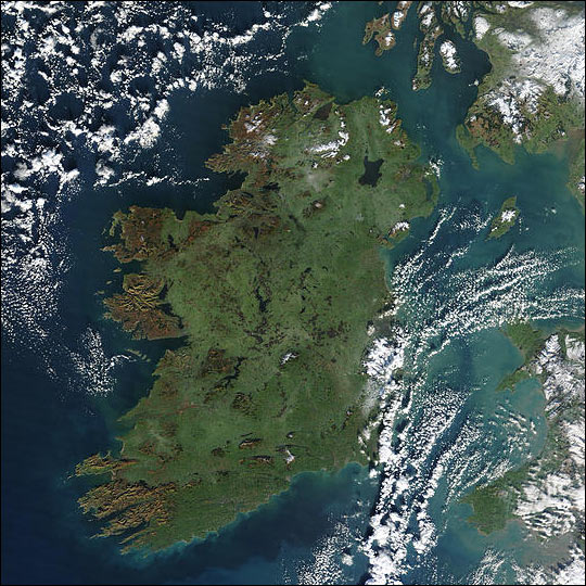 A true colour image of Ireland captured by a NASA satellite